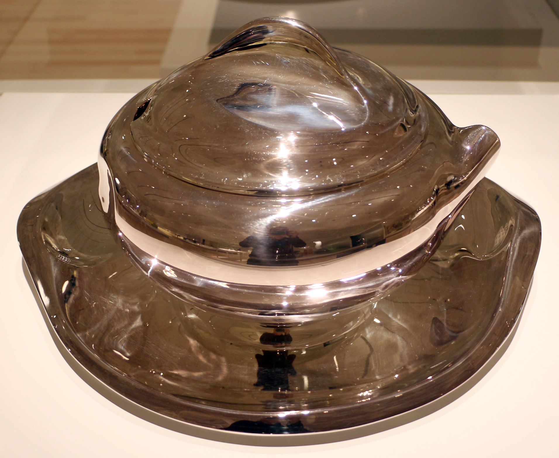 Metalware in the Indianapolis Museum of Art